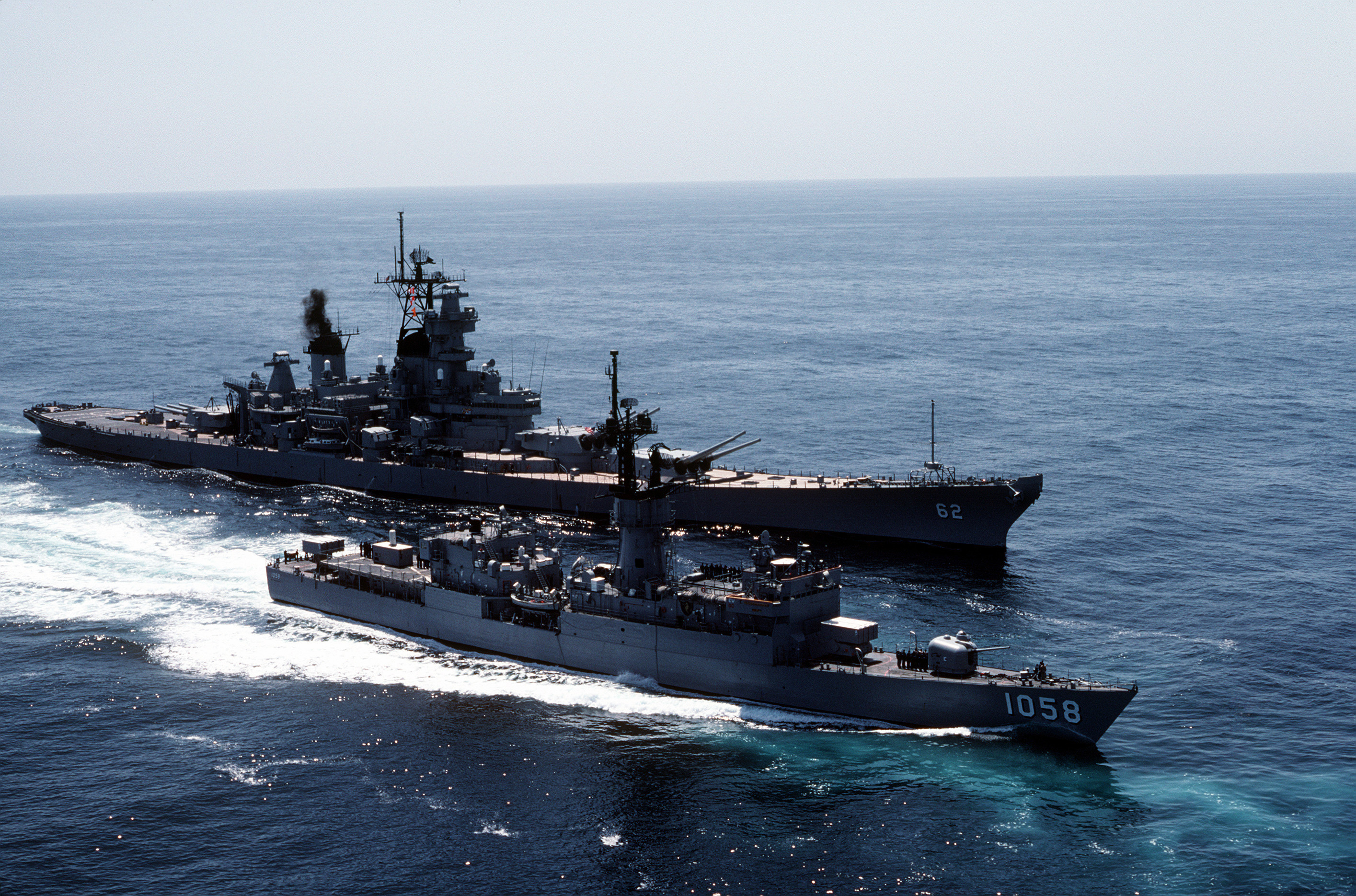 Aerial starboard view of the battleship USS NEW JERSEY (BB-62) (rear) and the frigate USS MEYERKORD (FF-1058). The ships are part of a task group underway off the coast of California.